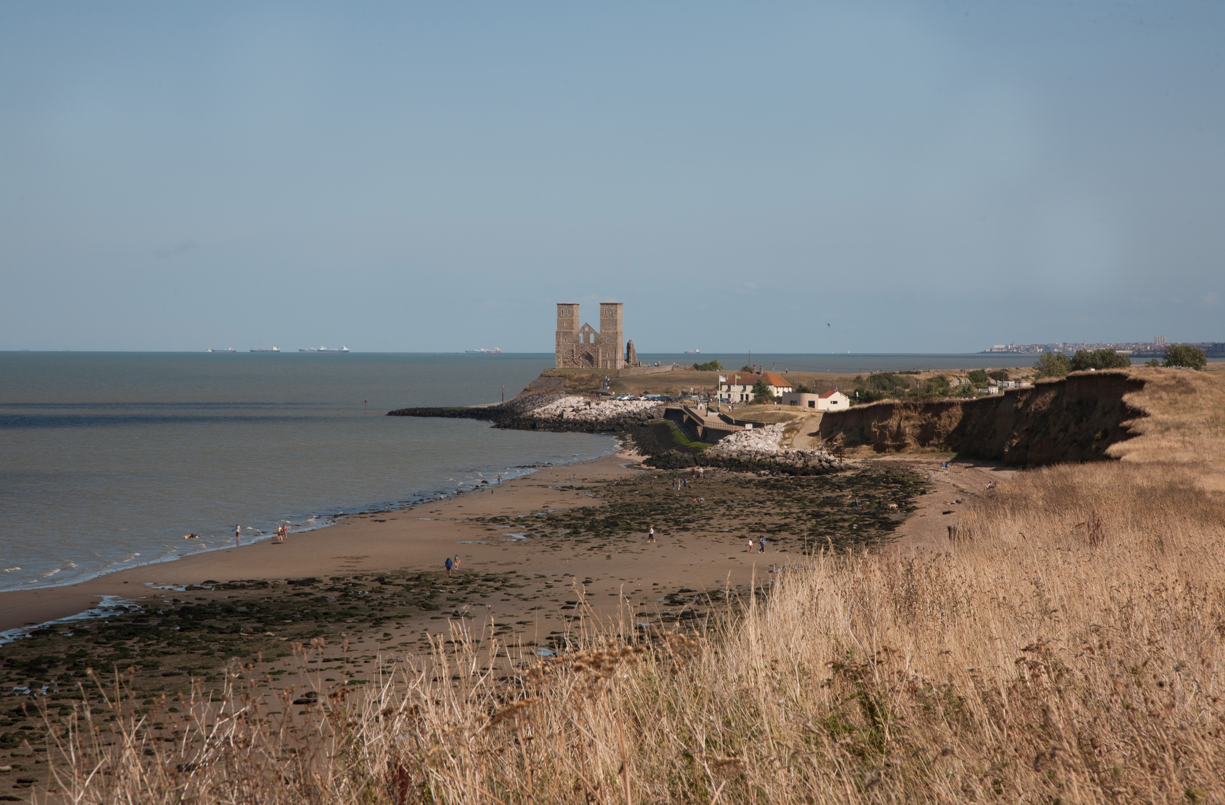 View of Reculver looking east from Reculver Country Park. The cliff is receding at about 3.28 feet (1 m) per year. The ruined parish church incorporates the remains of a monastic church established in 669 AD near the centre of an abandoned Roman fort which was roughly square in plan: a section of the southern wall of the fort is visible to the left of the static caravans below the town of Margate on the horizon at right, and from reference to this and the church an impression can be gained of the fort's size. It is believed that the fort's location when built was at the southern end of an elongated promontory which reached about 1.25 miles (2 km) to the north-east, roughly in the direction of the left-most ships in the image. The centre of Reculver village lay a little below and left of centre in the area shown until washed away by the sea around the end of the 18th century.